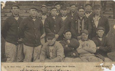 1906 lineup of the Lancaster Red Roses baseball team; 1906 Poster